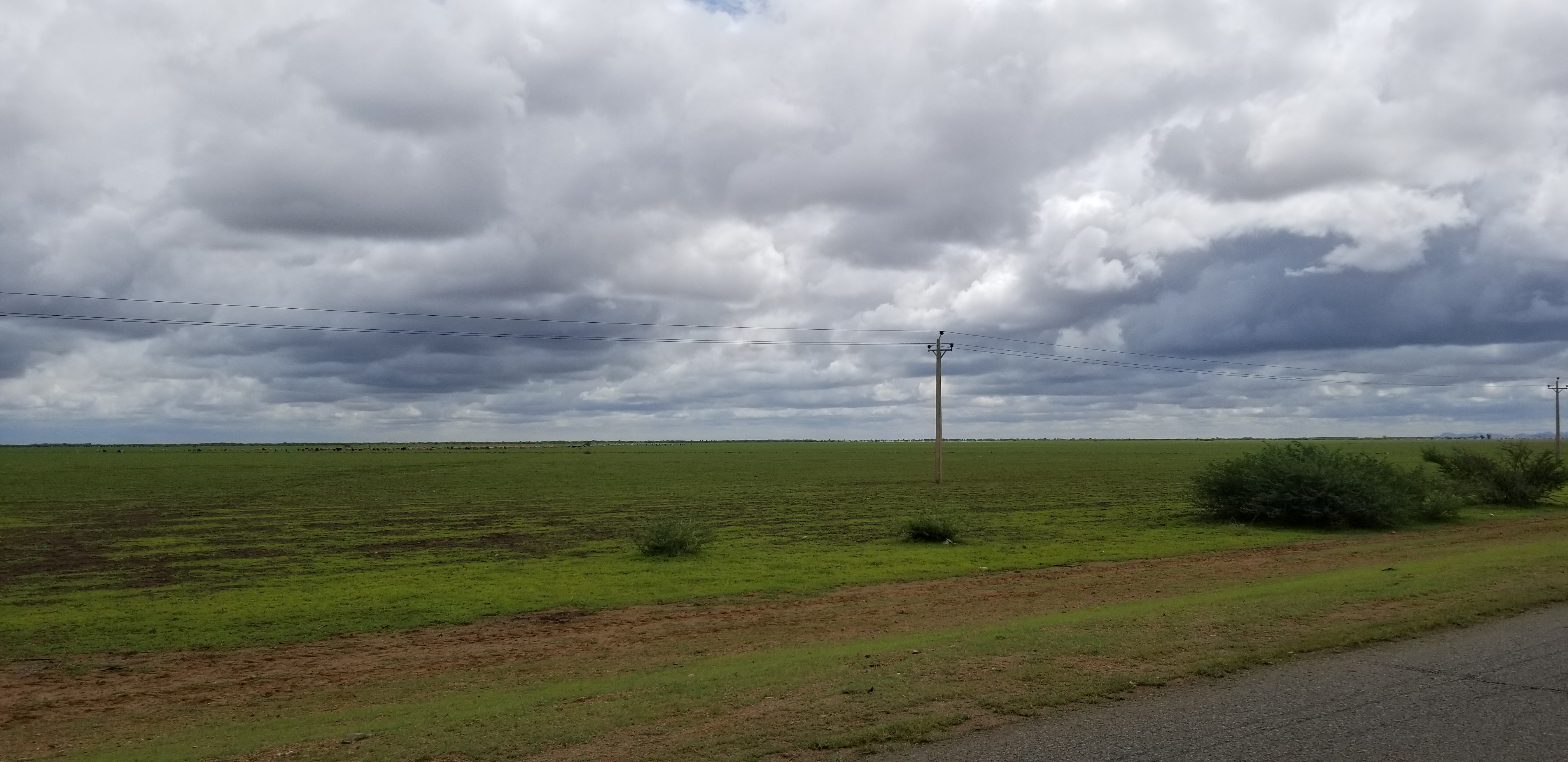 raining season in sudan This is an image with the theme "Africa on the Move or Transport" from: Sudan